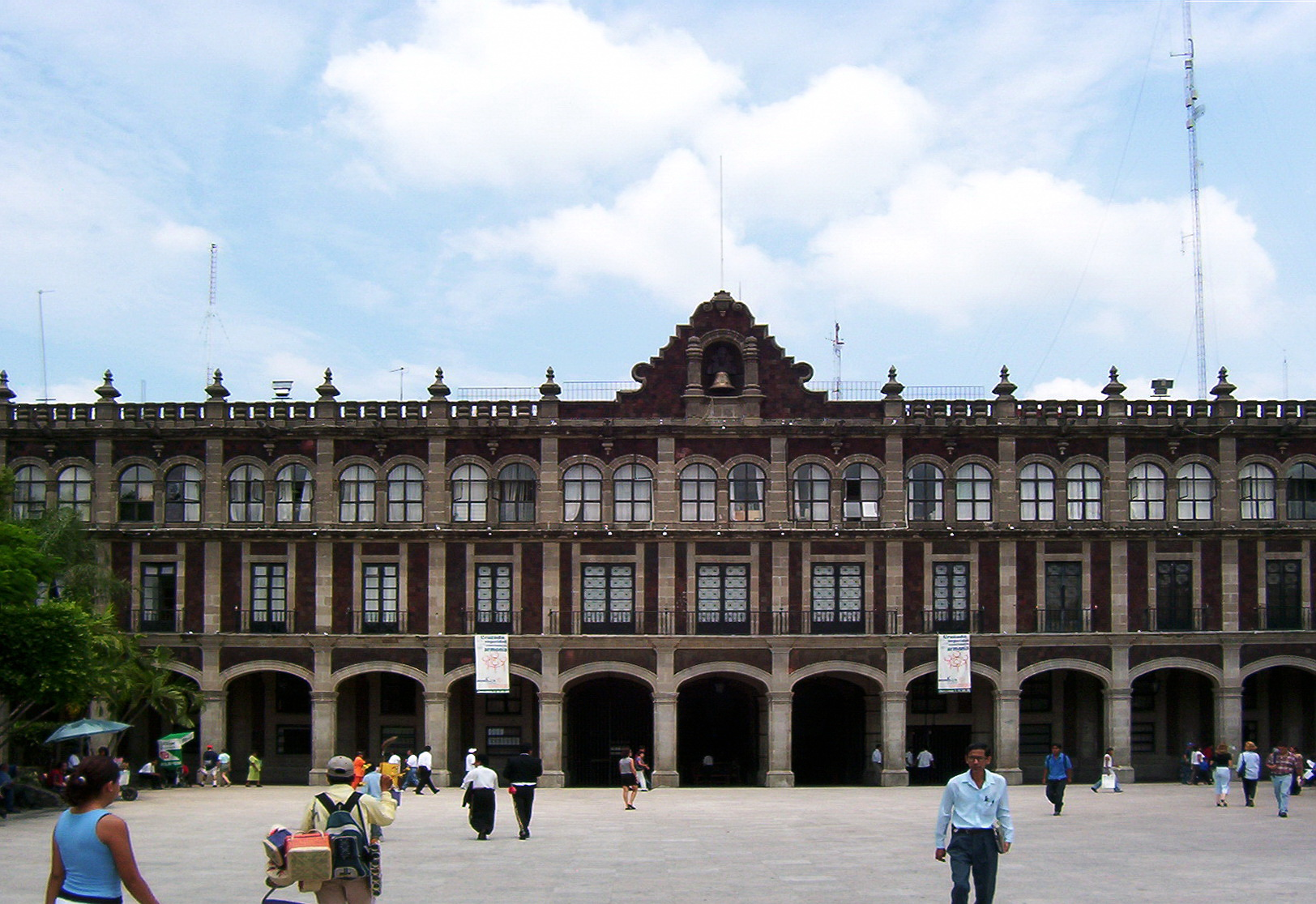 Morelos' State Government's Palace in Cuernavaca, Mexico.